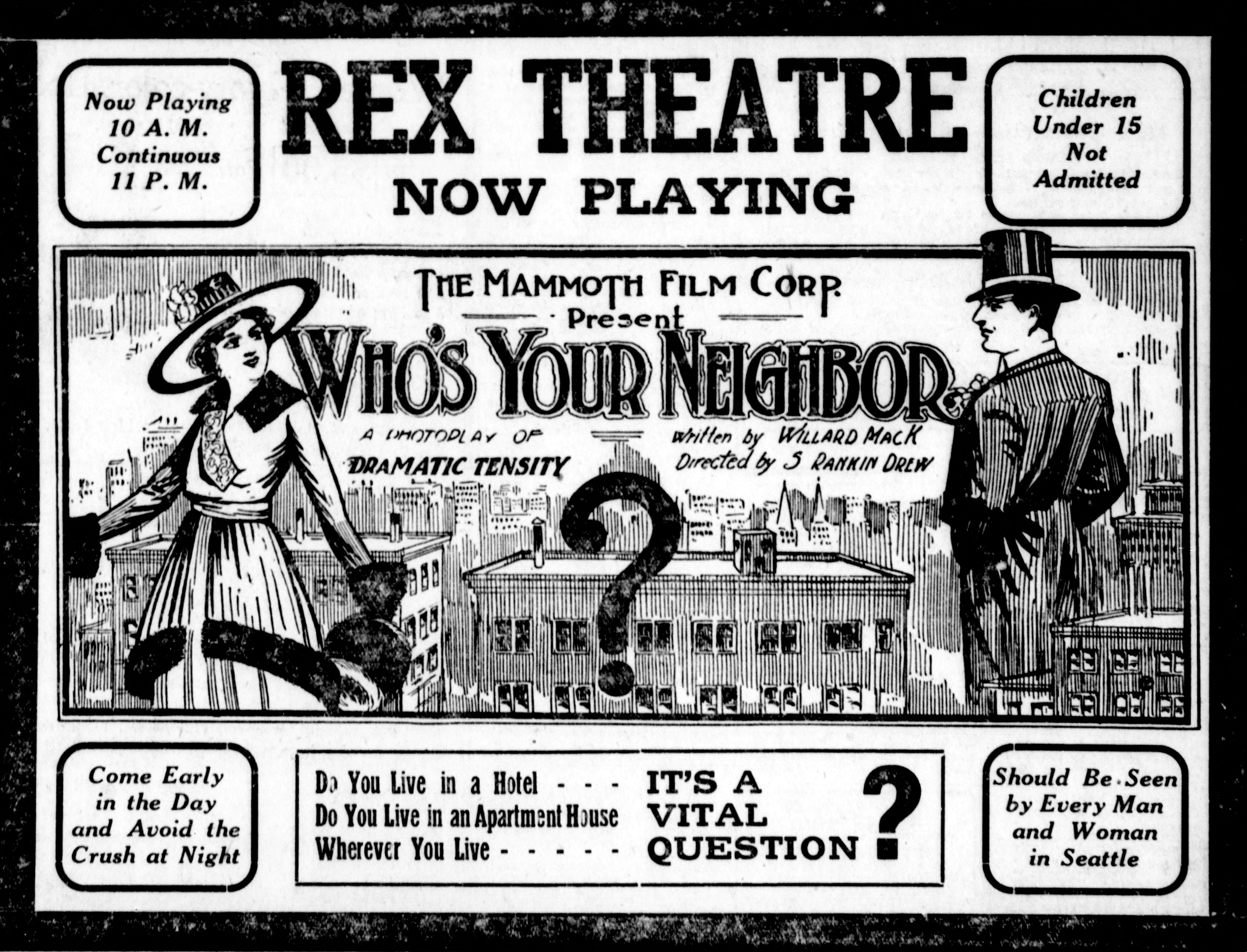 Who's Your Neighbor? is a 1917 silent American propaganda and drama film directed by S. Rankin Drew. This is a contemporary newspaper advert for the film.